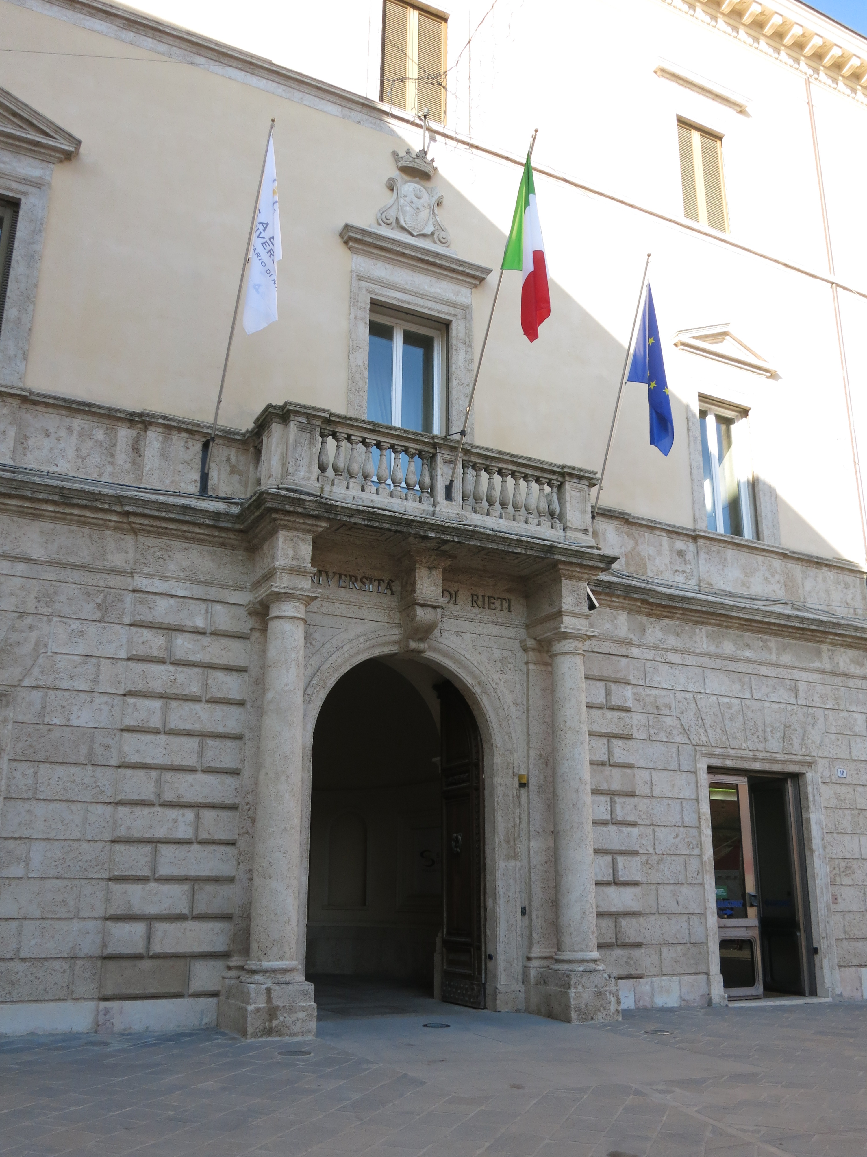 Dosi Delfini Palace - Rieti, Lazio, Italy